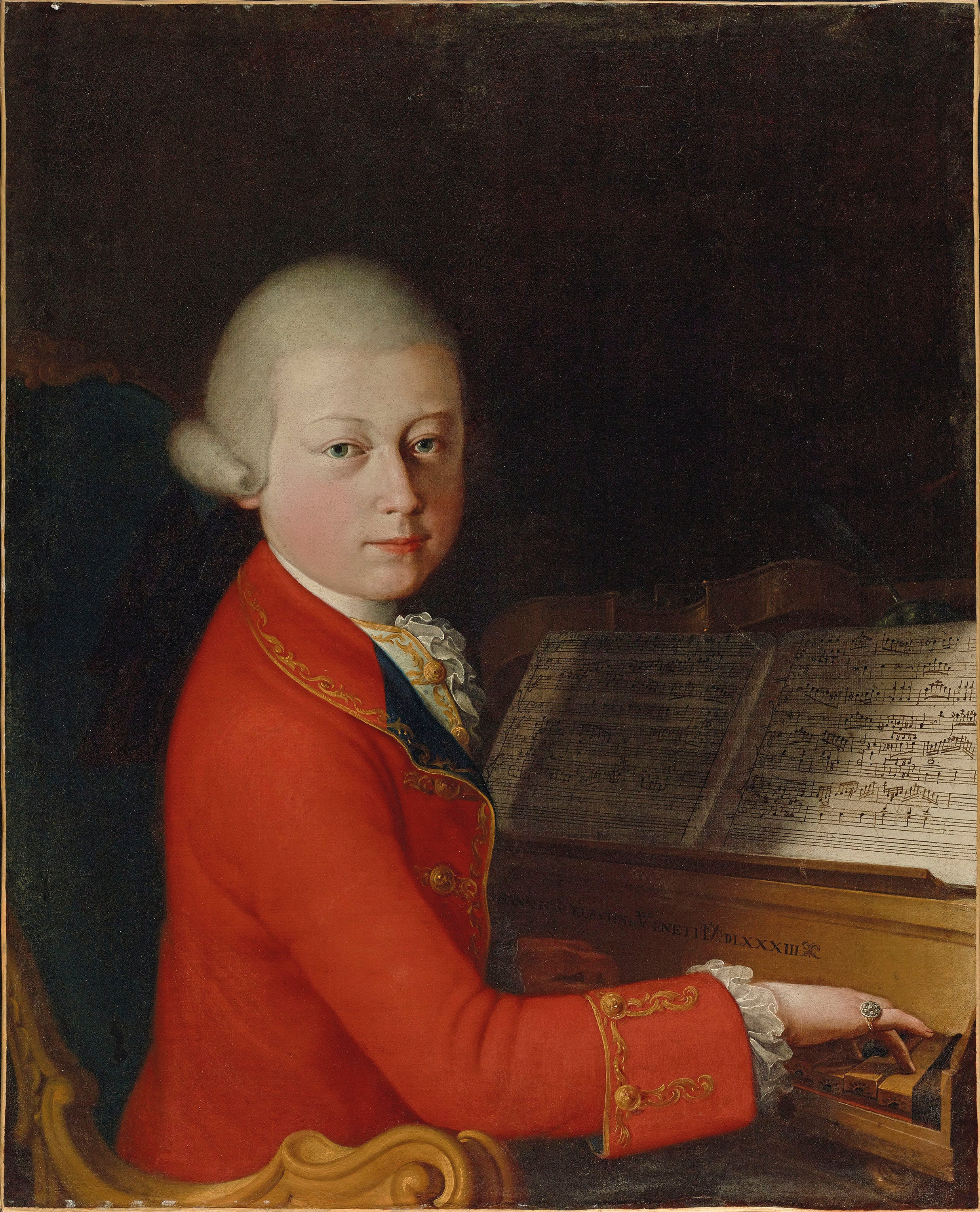 School of Verona, attributed to Giambettino Cignaroli (Salo, Verona 1706-1770), Portrait of Wolfgang Amadeus Mozart at the age of 13 in Verona, 1770. Offered for auction at Christie's Paris on 27 November 2019, from the collection of the descendants of pianist Alfred Cortot.